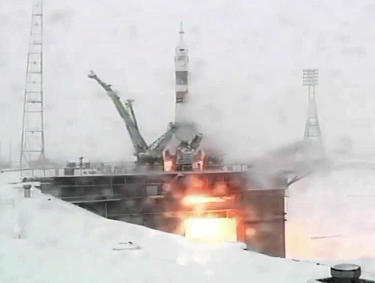 Expedition 29 launches aboard the Soyuz TMA-22 spacecraft amid snowy conditions at the launch pad.